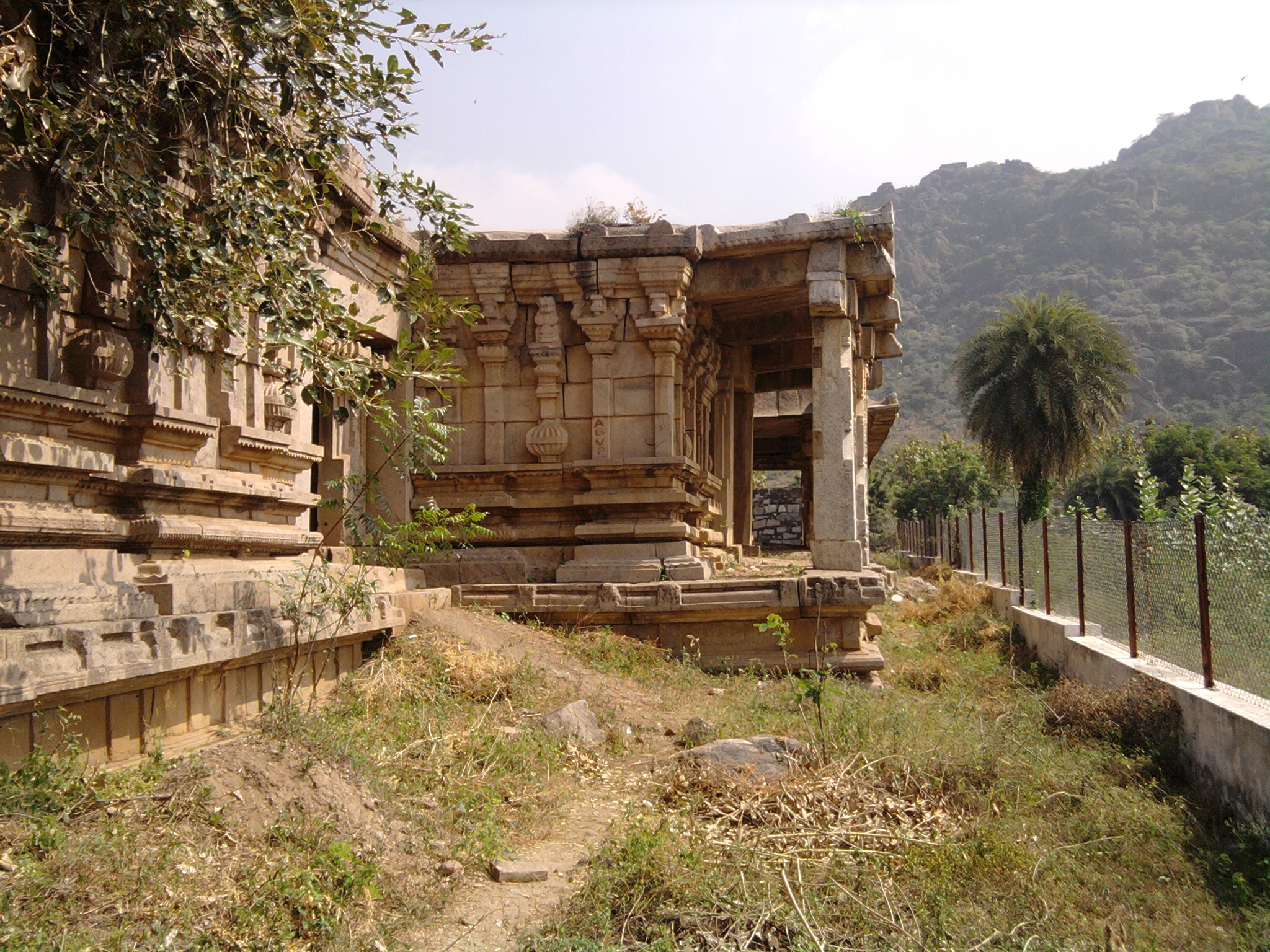 The Fort from Gopinatheshwar Temple